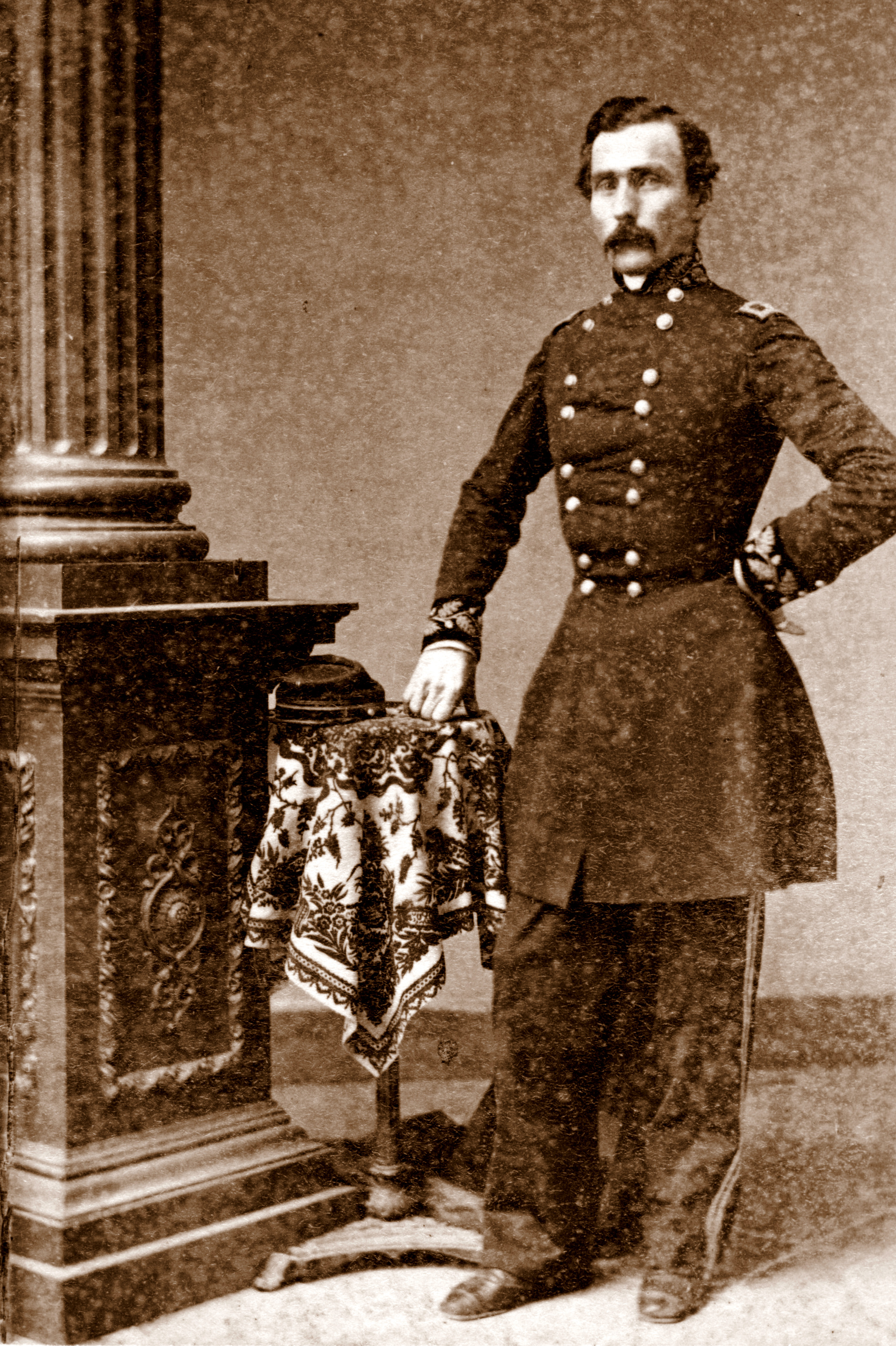 Carte-de-Visite of Daniel Marsh Frost, standing, full length, 3/4 pose facing to left, looking at camera, in Missouri state militia uniform; subject's left hand on hip, right hand resting on table to left with kepi on table, pattern tablecloth, pillar to left, patterned floor. Inscription on front: Genl D. M Frost. Published by E. and H.T. Anthony (Firm), 501 Broadway, New York. Manufacturers of the best Photographic Albums. Inscription on back: Genl D. M. Frost.